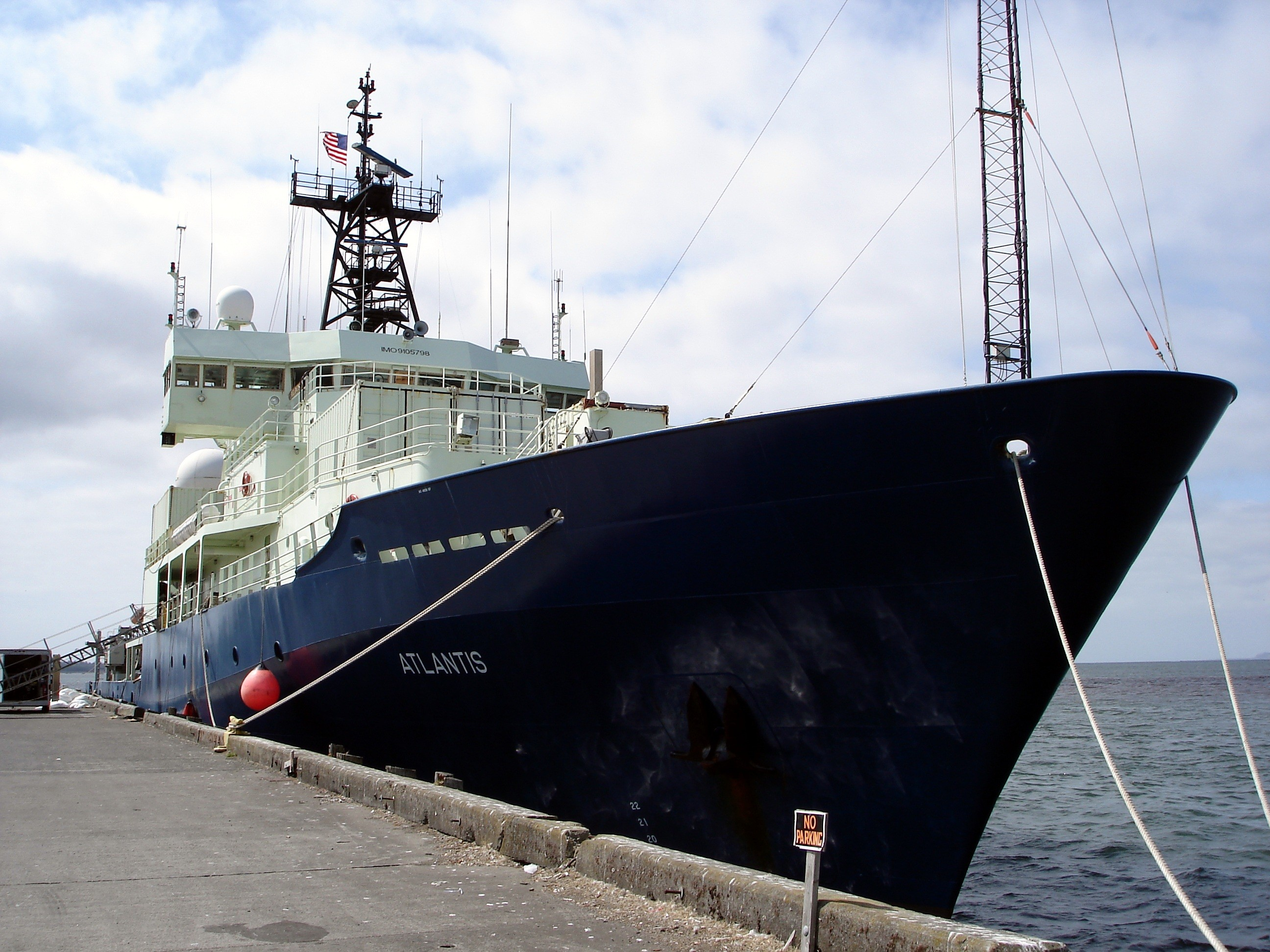 The Research Vessel Atlantis is operated by the Woods Hole Oceanographic Institution; R/V Atlantis is 142 feet long and carries the manned deep-sea submersible Alvin.